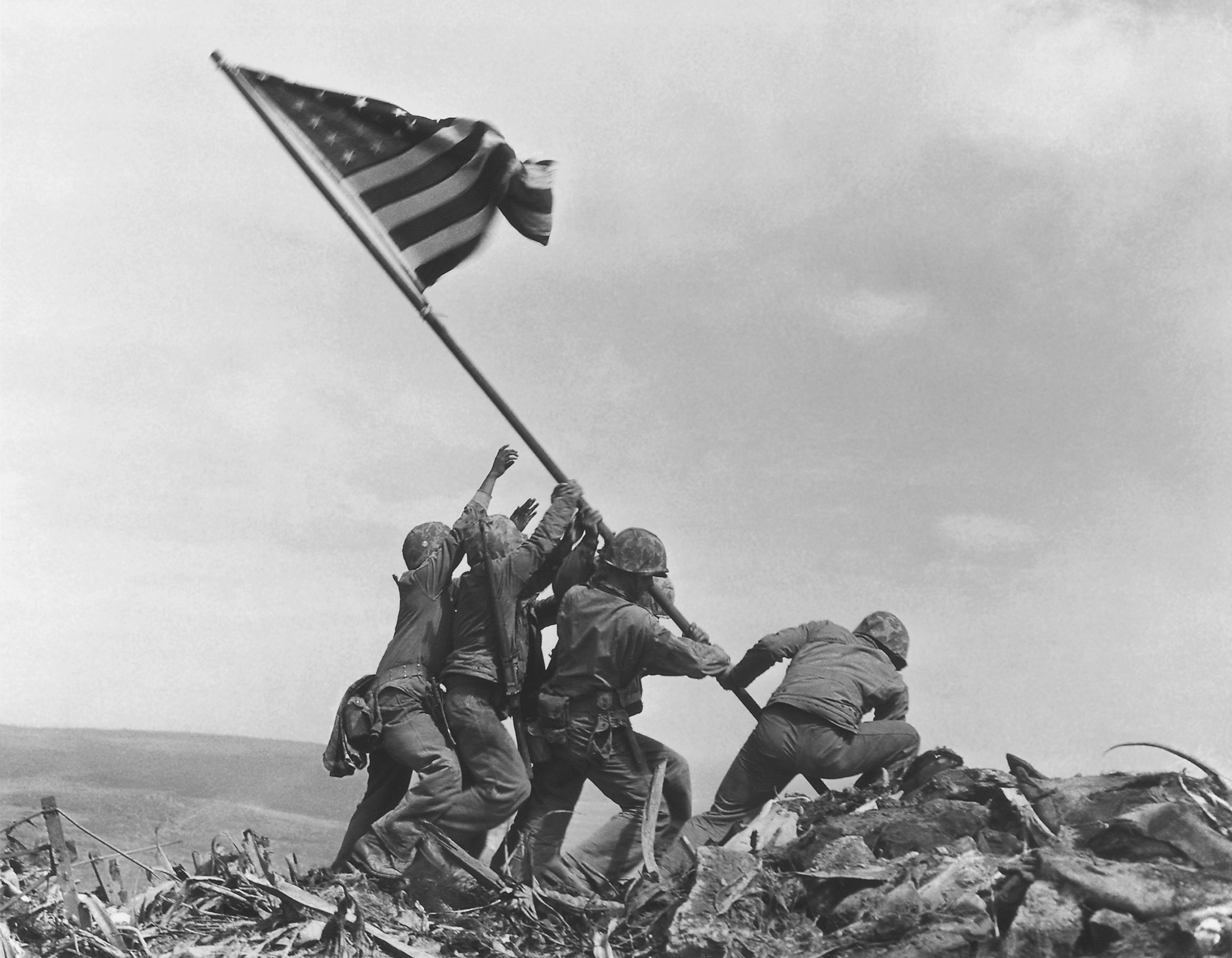 Raising the Flag on Iwo Jima, Retouched 2